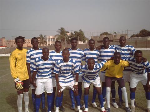 photo of wallidan f.c.,gambia